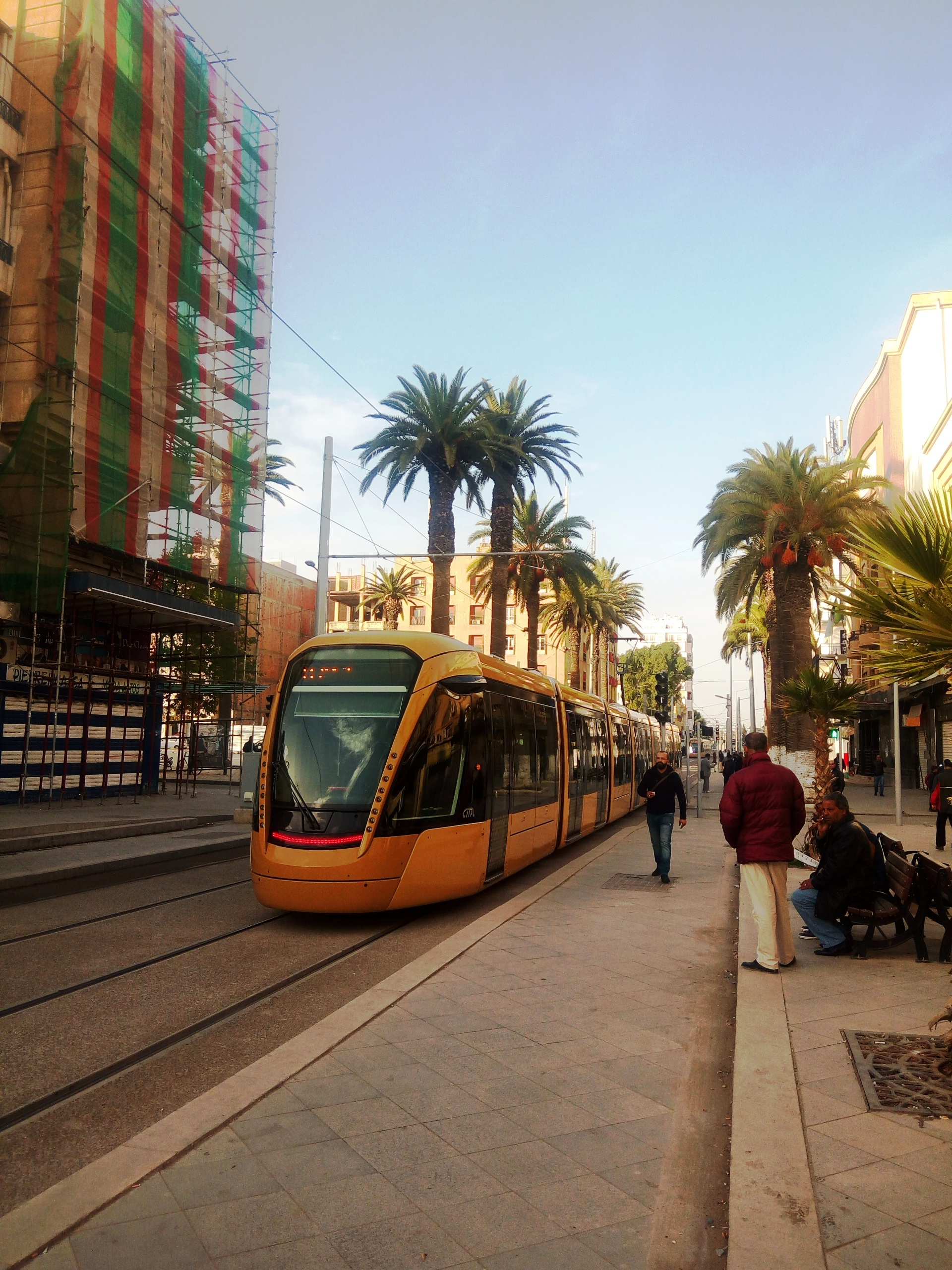 Tram in Sidi Bel Abbès, Algeria